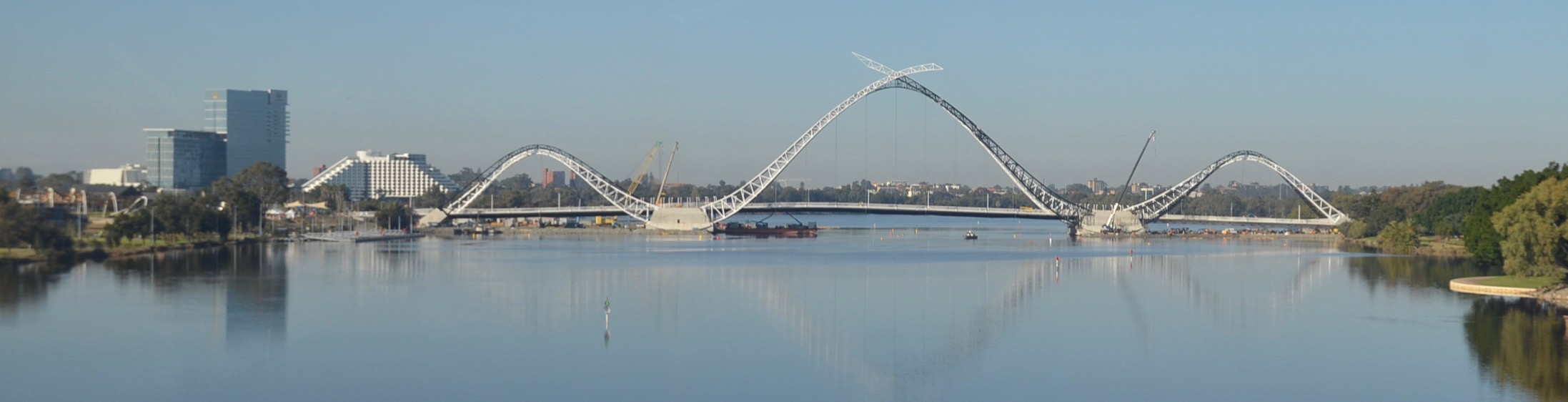 Matagarup Bridge from the railway bridge.